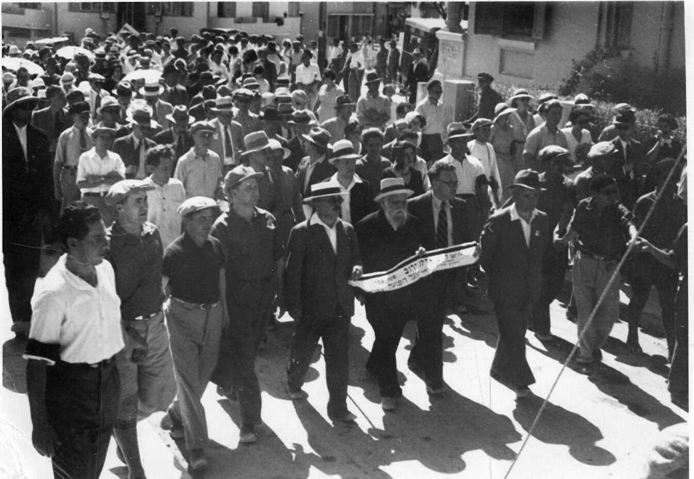 David Ben-Gurion, Yisrael Marminsky, Alexander Ziskind Rabinovitch & David Remez lead the march to the cemetery for the year anniversary of Haim Arlosoroff's murder